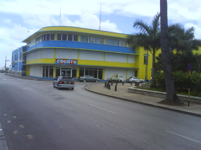 A view of a Courts Furniture store (Saint George Street) at Jubilee Gardens, Bridgetown, Barbados.